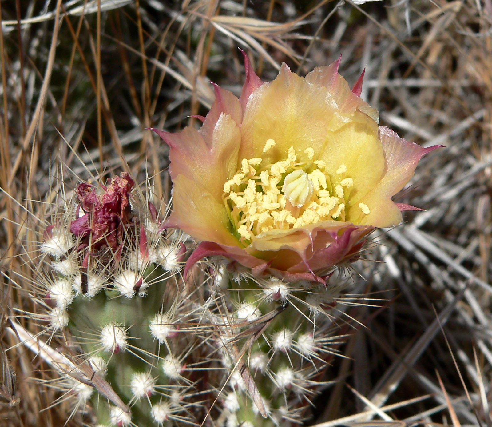 Grusonia parishii in Calico Basin, Spring Mountains, west of Las Vegas, Nevada